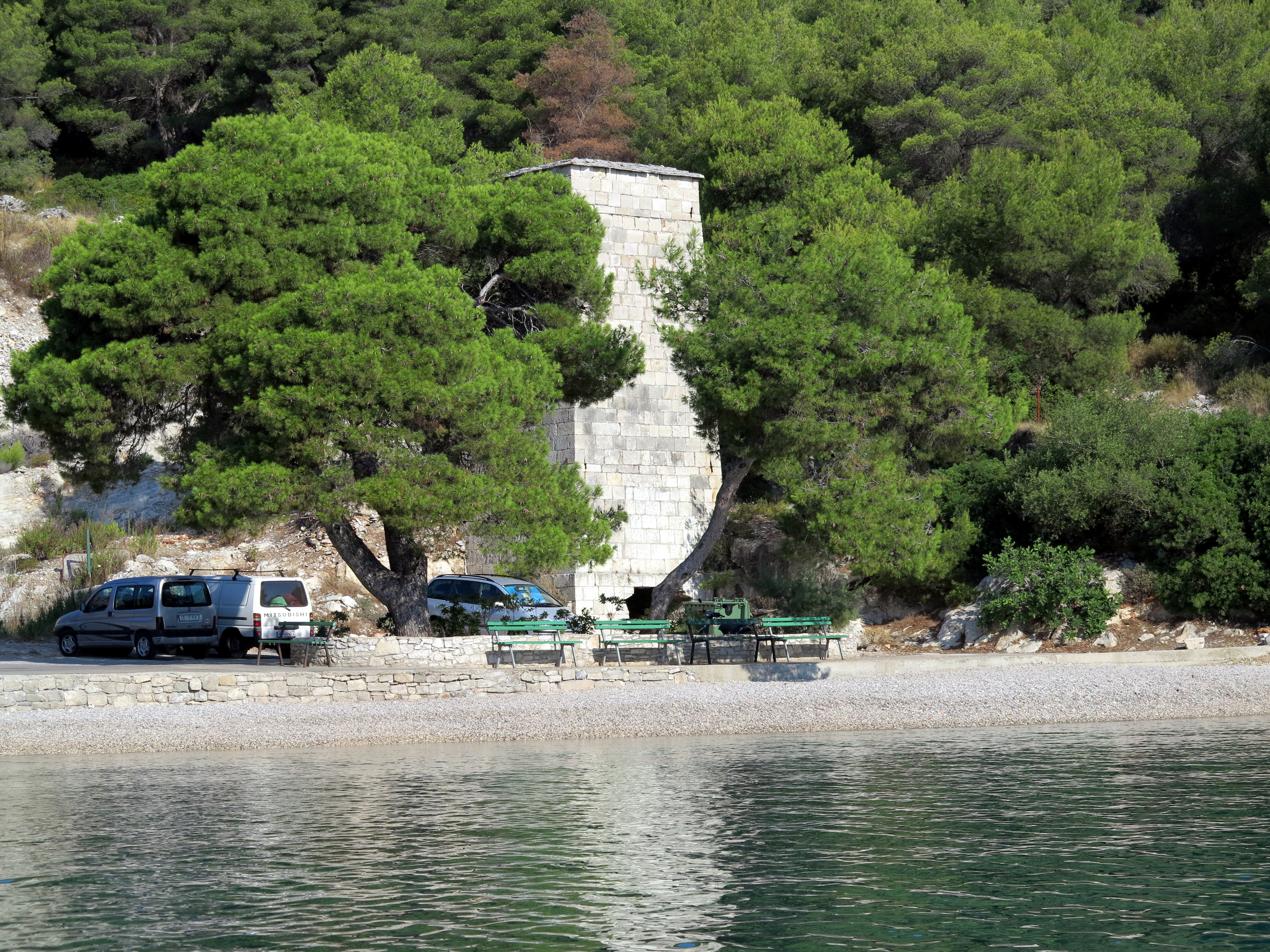 Stomorskaon the island Šolta / Croatia / Adriatic Sea.